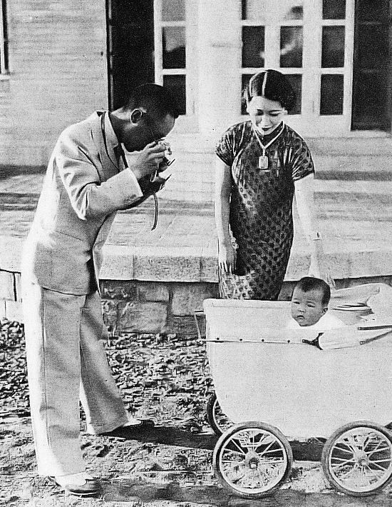 Aisin-Gioro Pujie and his family